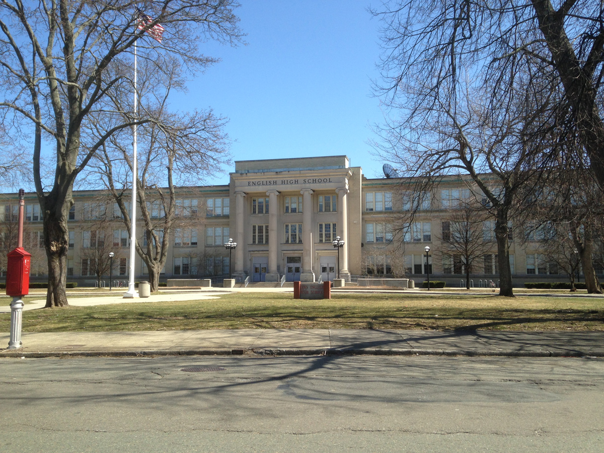 A view of the front portion of Lynn English High School in Lynn, MA.